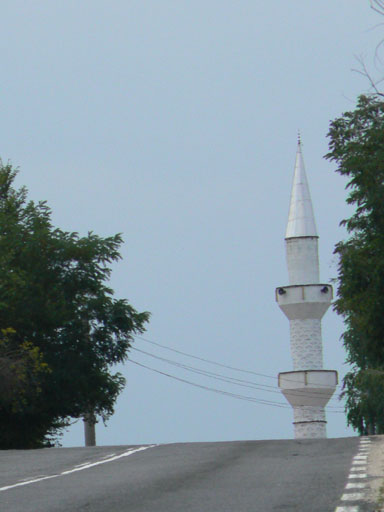 Rhodopean village of Boyno in Bulgaria - the mosque